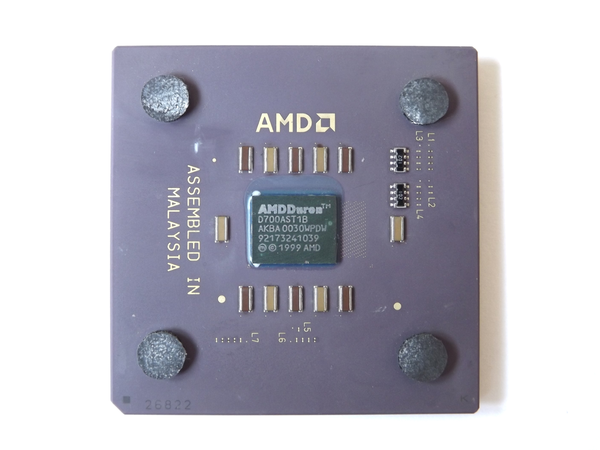 AMD Duron 700 D700AST1B (Spitfire) microprocessor Date of production: week 30/2000 Frequency 700 MHz